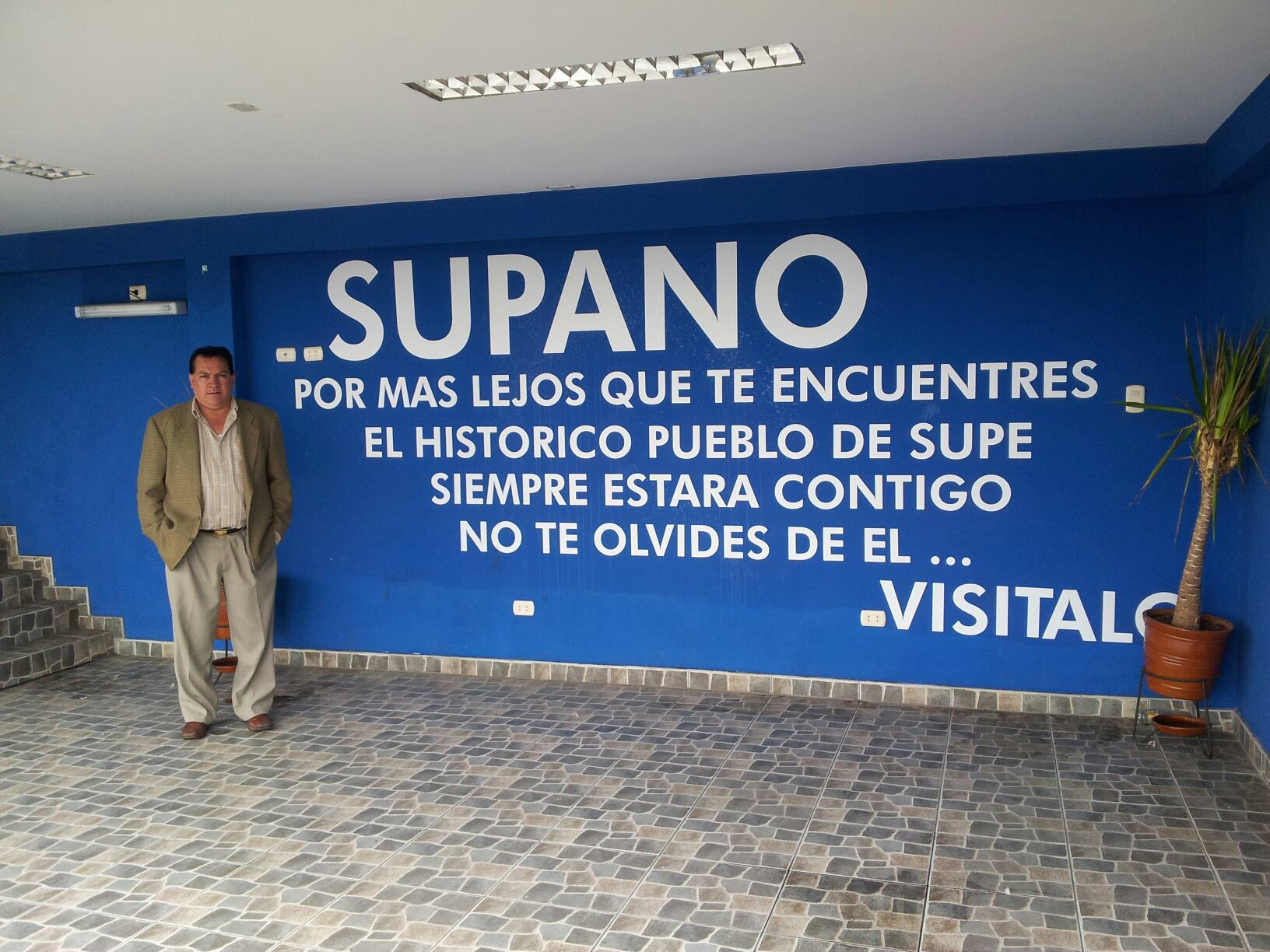 Lema en Amor a Supe Pueblo